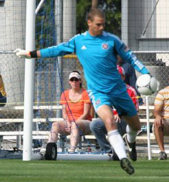 Carl Woszczynski Fire